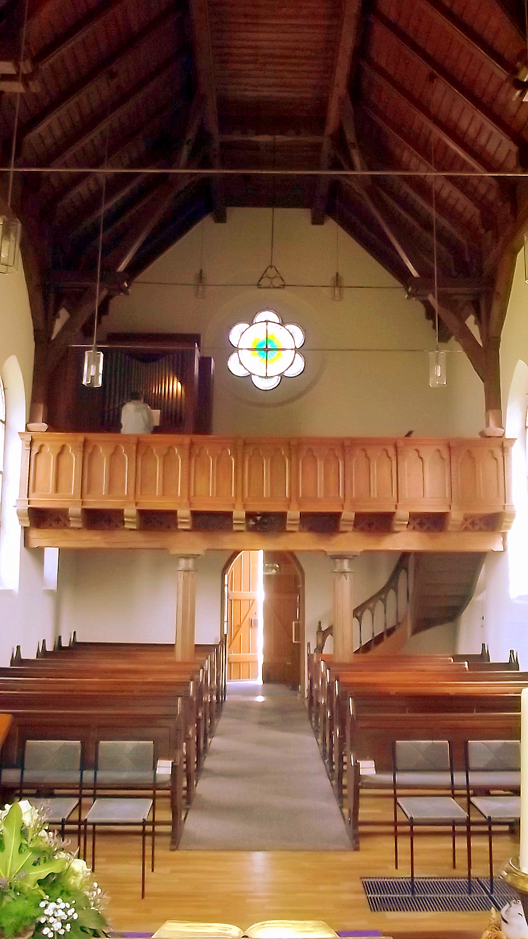 Interior of the protestant church in Wadern, Saarland